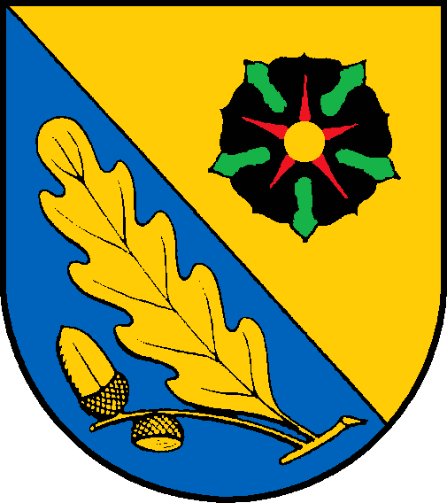 Coat of arms of the municipality Hasloh in Schleswig-Holstein, Germany.